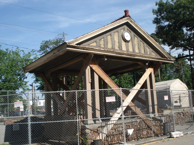 Burnt down station, Upper Montclair Station, Montclair NJ